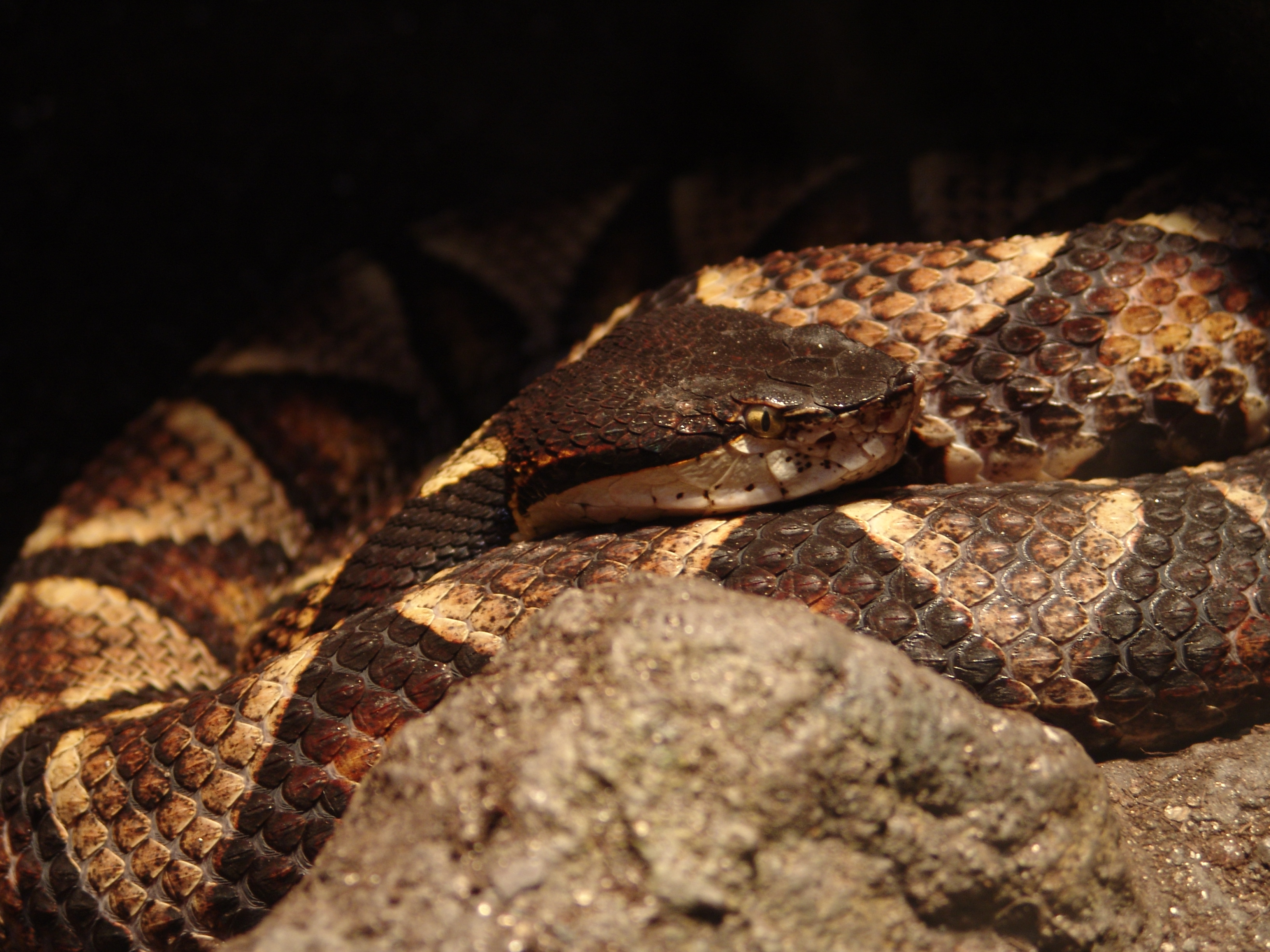 Sharp-Nosed Viper at Wilmington's Serpentarium. I took the picture.